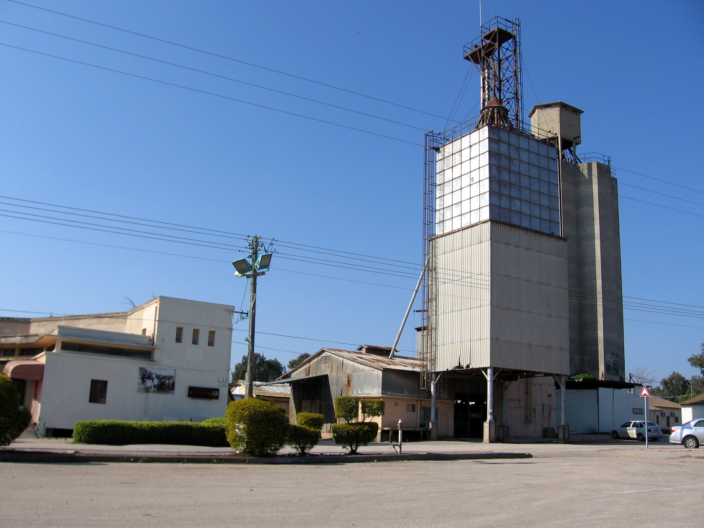 Kfar Yehezkel 2012